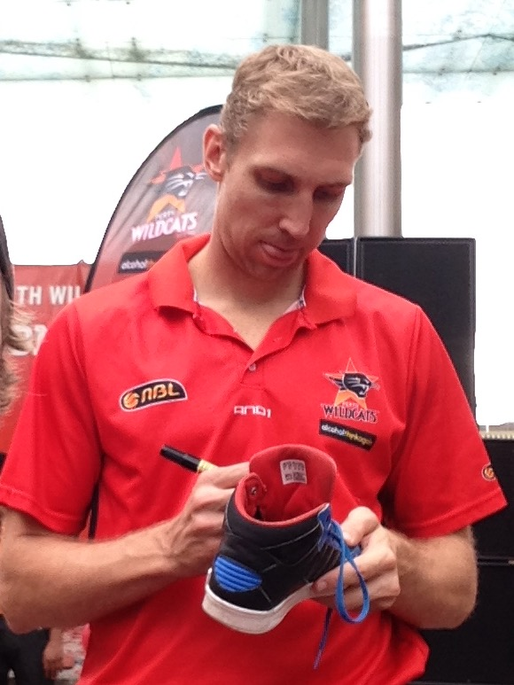 Shawn Redhage at the Perth Wildcats' 2014 championship ceremony